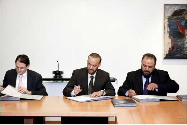 Contract signing between SRC and UM representatives